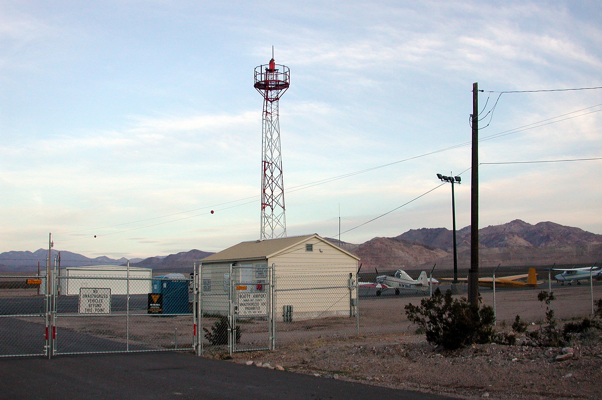 Beatty Airport in the Amargosa Desert south of Beatty, Nevada. Looking northwest toward the Bullfrog Hills and the Grapevine Mountains.